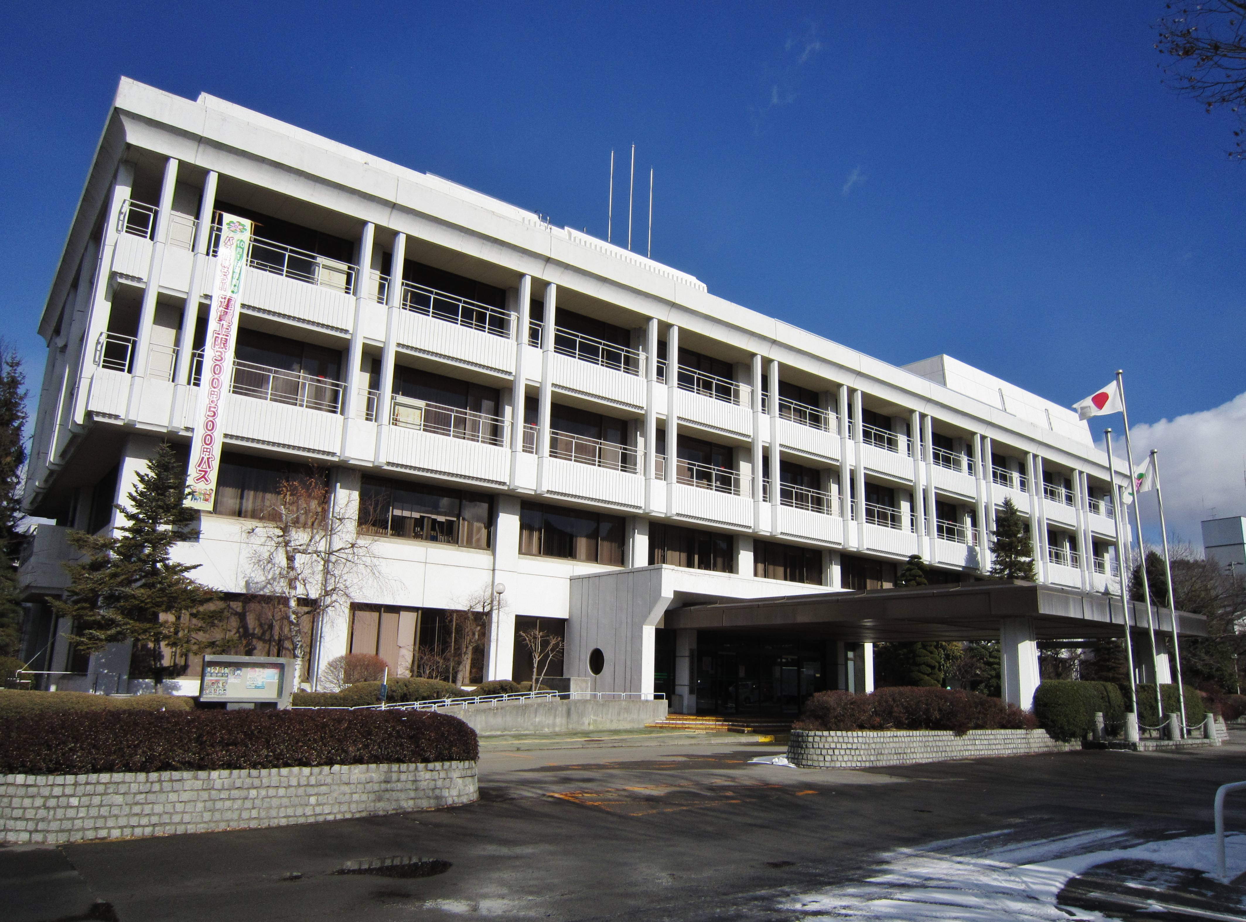 Ueda city Maruko regional autonomy center.